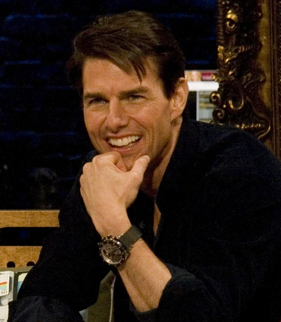 Tom Cruise on MTV Live in December 2008